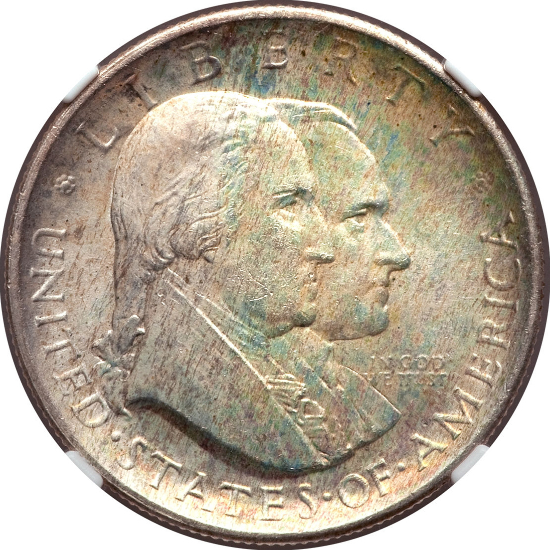 1926 50C Sesquicentennial (obv)(1174-4382)